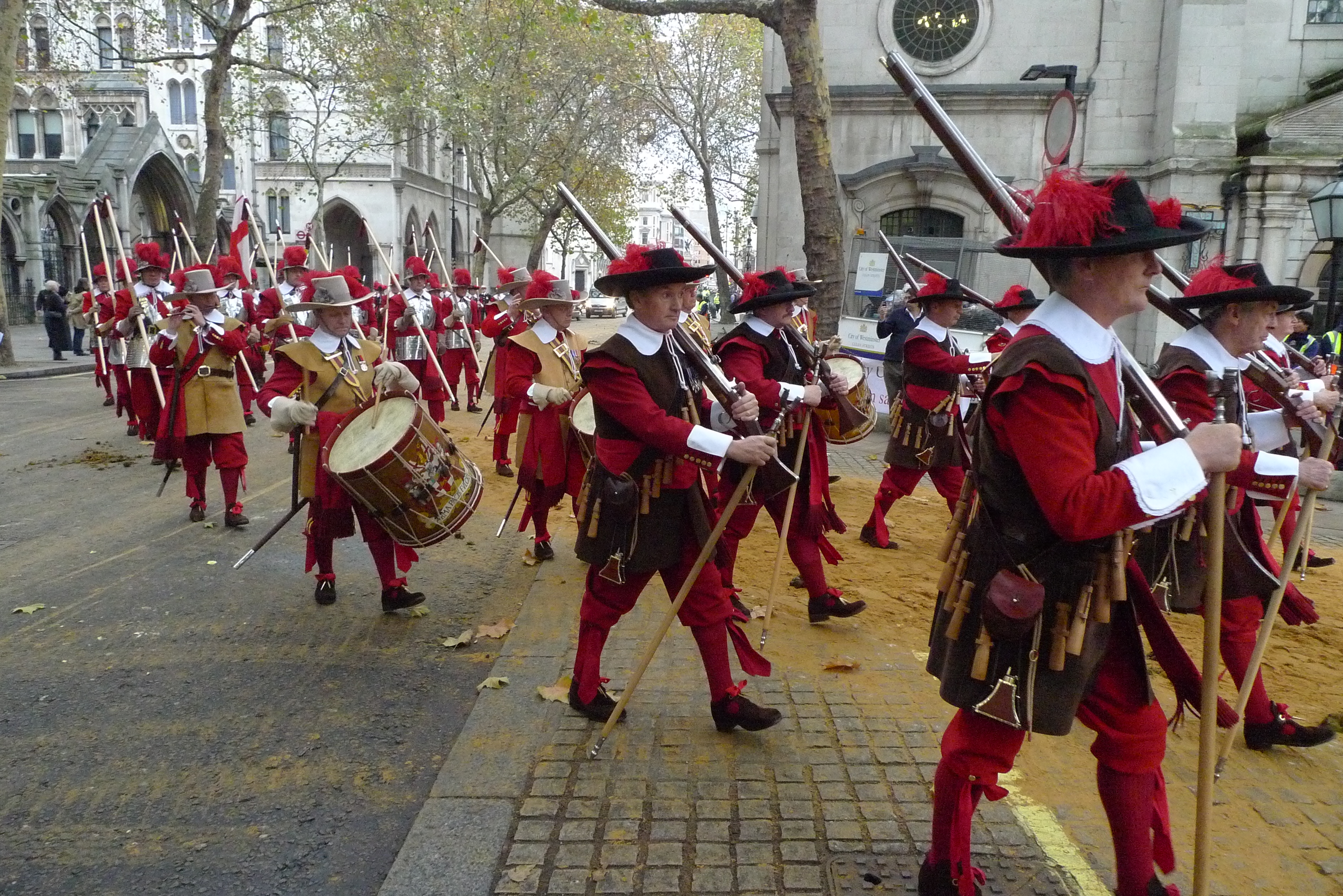 photo of the Company of Pikemen & Musketeers of the Honourable Artillery Company at the Lord Mayor's show Novemebr 2011, photo by me Rodolph de Salis.Rodolph (talk) 01:30, 17 November 2011 (UTC)